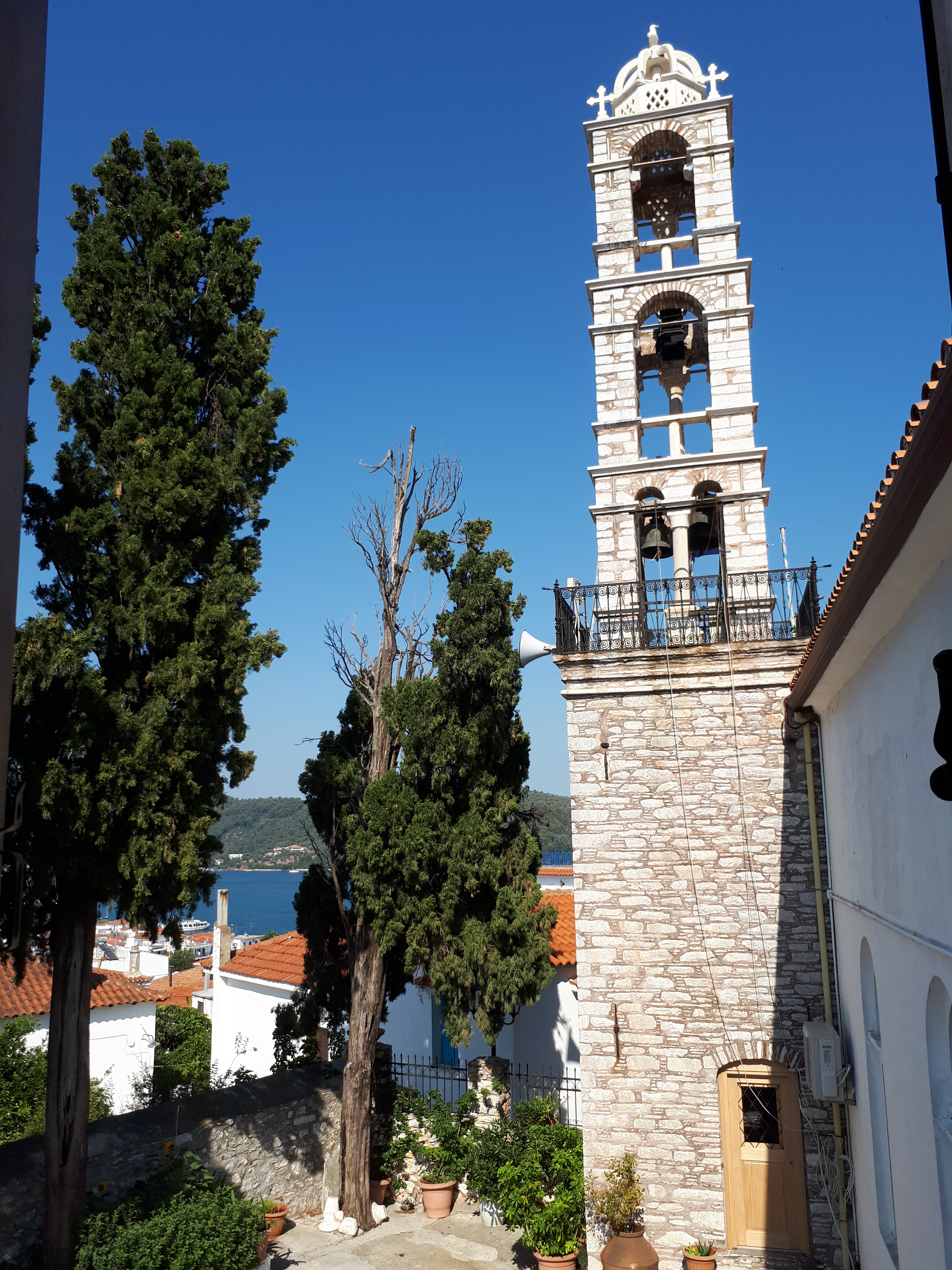 Church in Skiathos (Panagia Limnia)